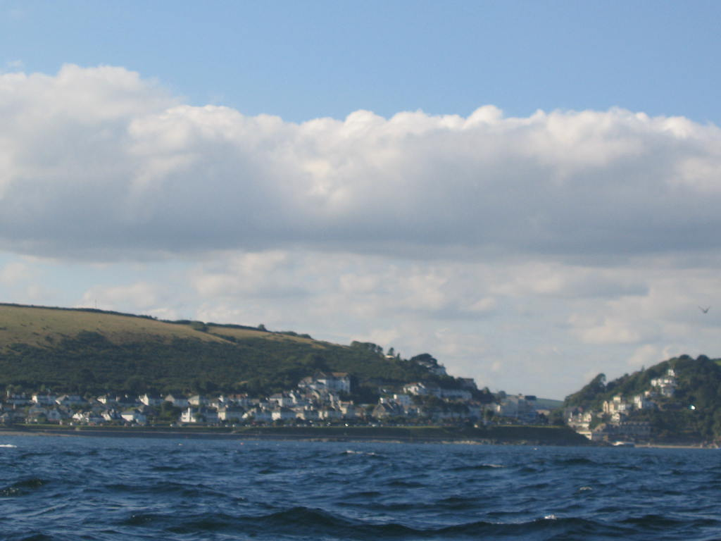 This image was taken by myself in August 2005. It shows the view back towards Looe from a boat trip around Looe Island.